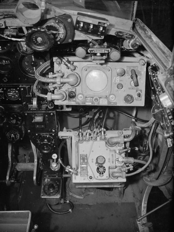 Royal Air Force Radar, 1939-1945. Airborne Interception Radar: AI Mark VIIIB indicator and receiver in the operating position, as seen from the observer's seat of a De Havilland Mosquito NF Mark XIII night fighter. The vizor has been removed from the screen on the indicator unit (top). The receiver unit (bottom) was hinged so as to fold back into the space beneath the indicator unit in order to render access and egress from the cockpit via the door at lower right. Photograph taken at No. 10 Maintenance Unit, Hullavington, Wiltshire.